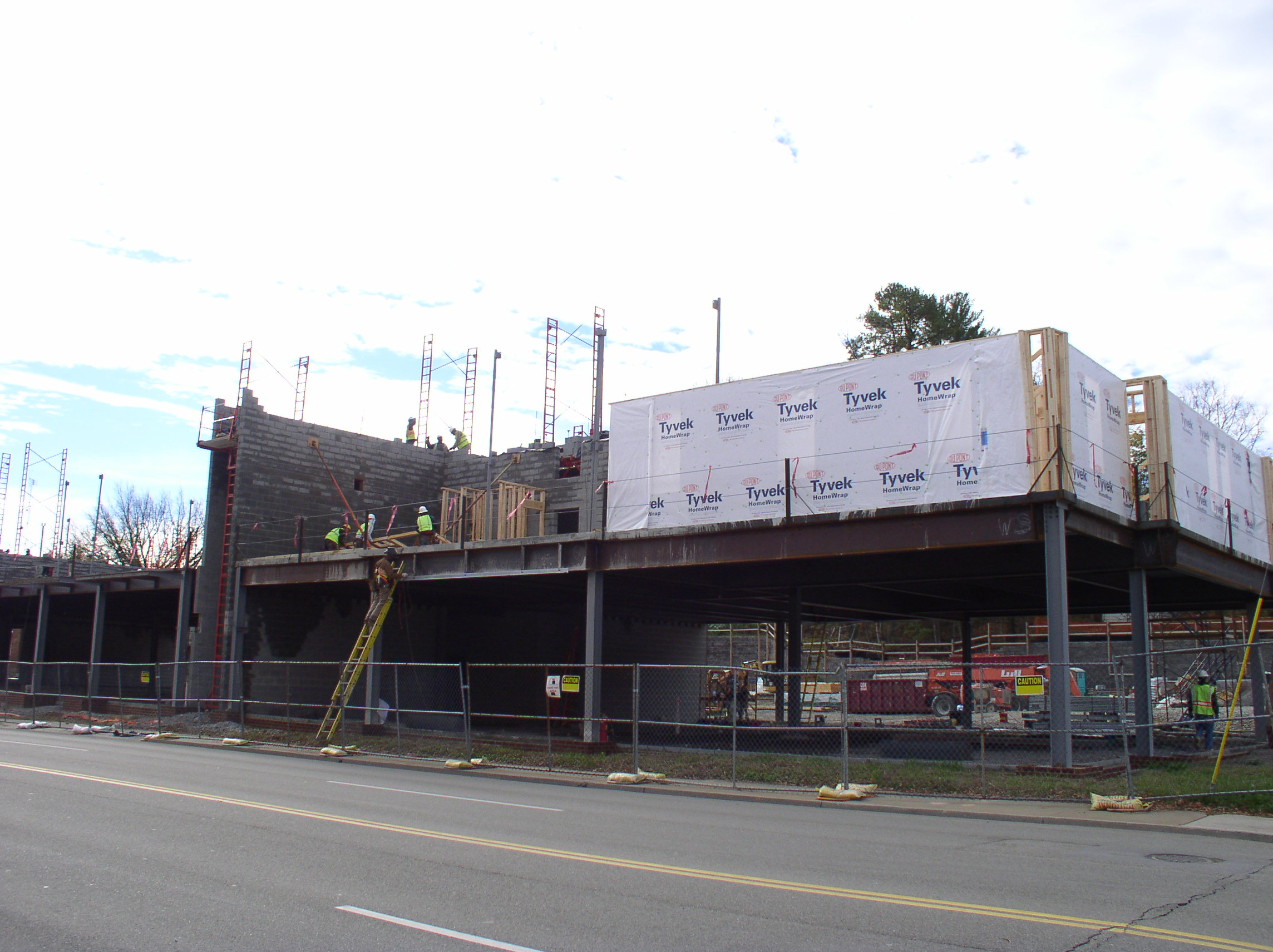 A building under construction in Farmville, Virginia. The outer shell of the building will be frame construction, but the firewalls subdividing the building into thirds are clearly visible.